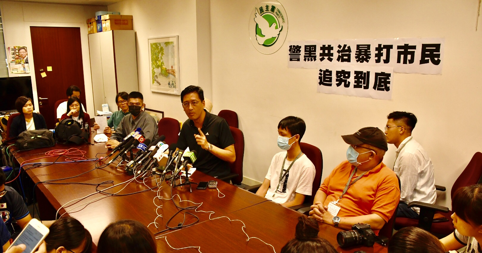 Democratic Party lawmaker Lam Cheuk-ting held a press conference with a number of victims and witnesses of the Yuen Long attack to tell about the terrorist experience. July 24, 2019